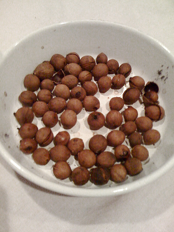 Edible Roasted Baynuts, which are the seed pits of the fruit of the Umbellularia Californica tree. Roasted at 400 degrees F for 40 minutes